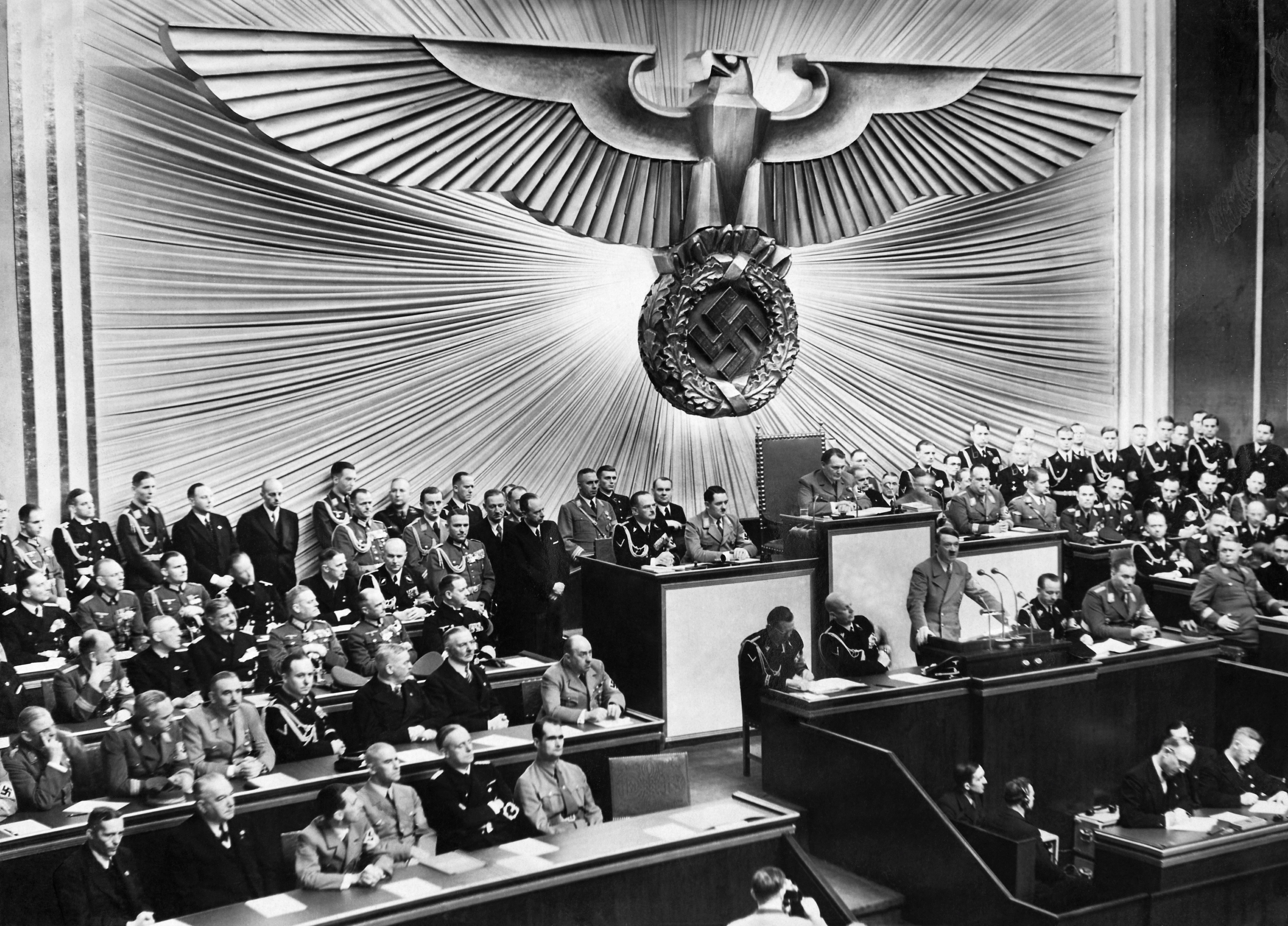 see title